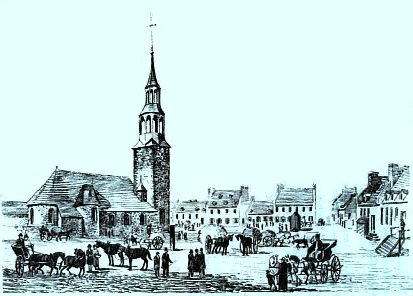 The first church in the settlement of Ville-Marie, circa 1640-60s.